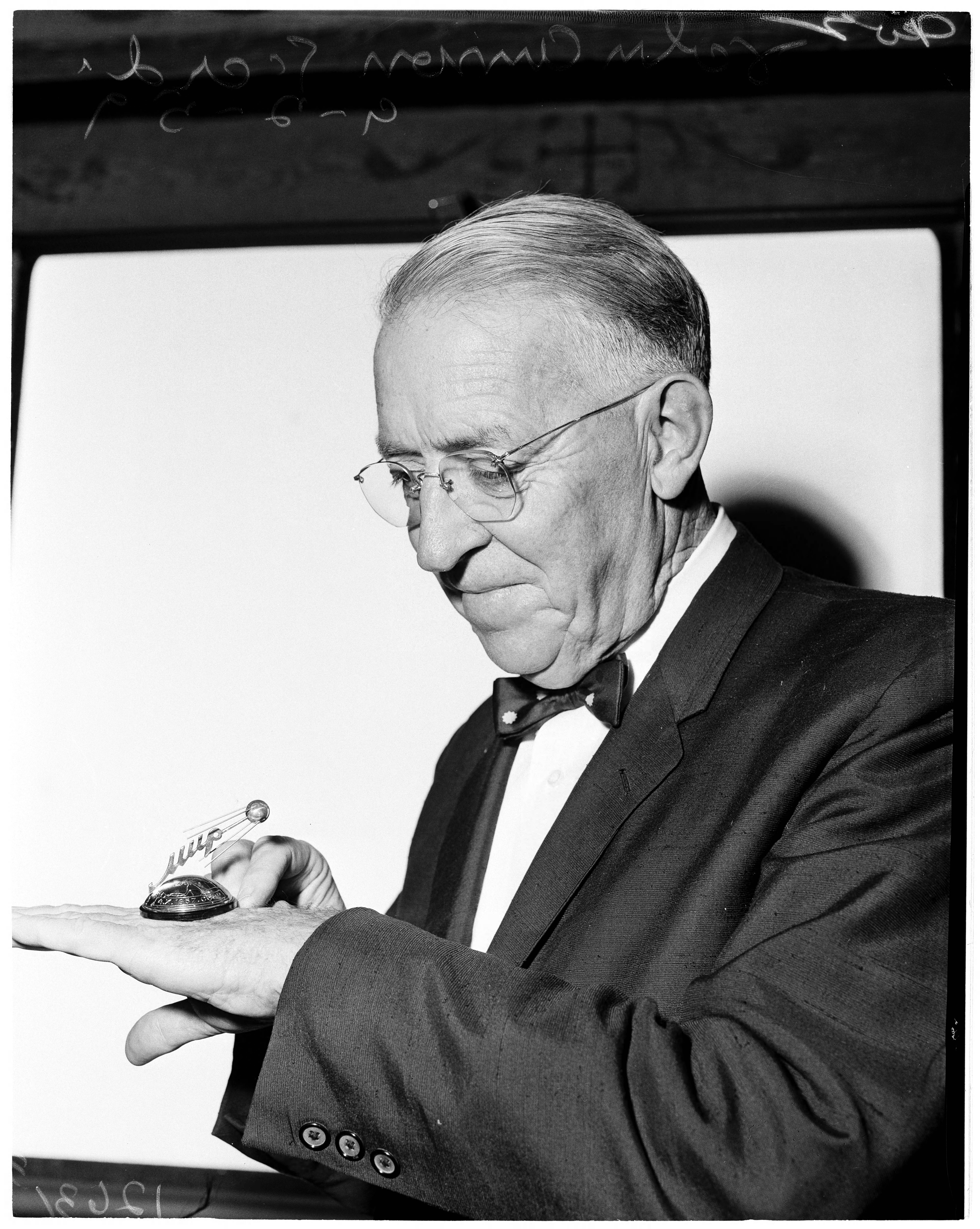 John Anson Ford at his home at 1976 North Normandie. Displays miniature gold Sputnik given to him by Russian Premier on his recent trip to that country.